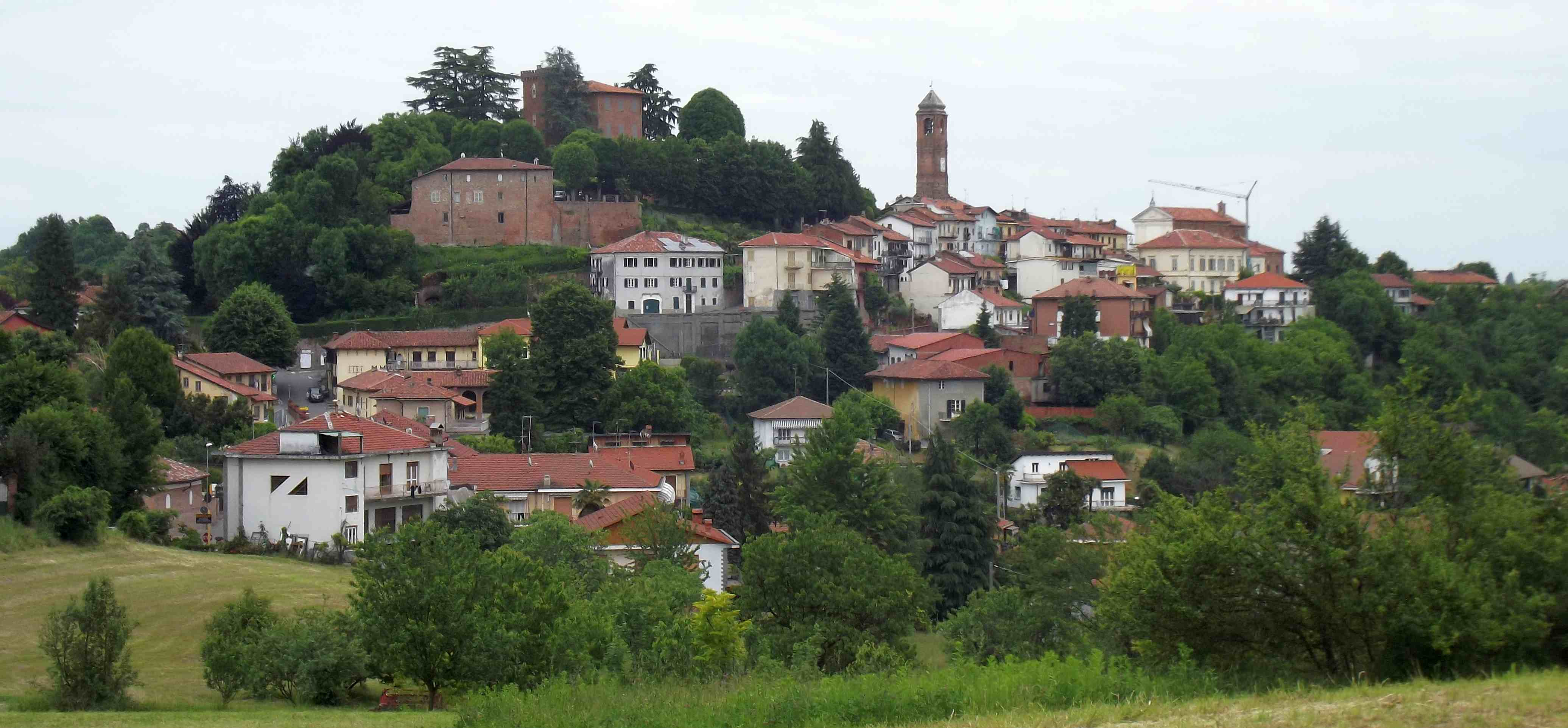 Sciolze (TO, Italy): panorama